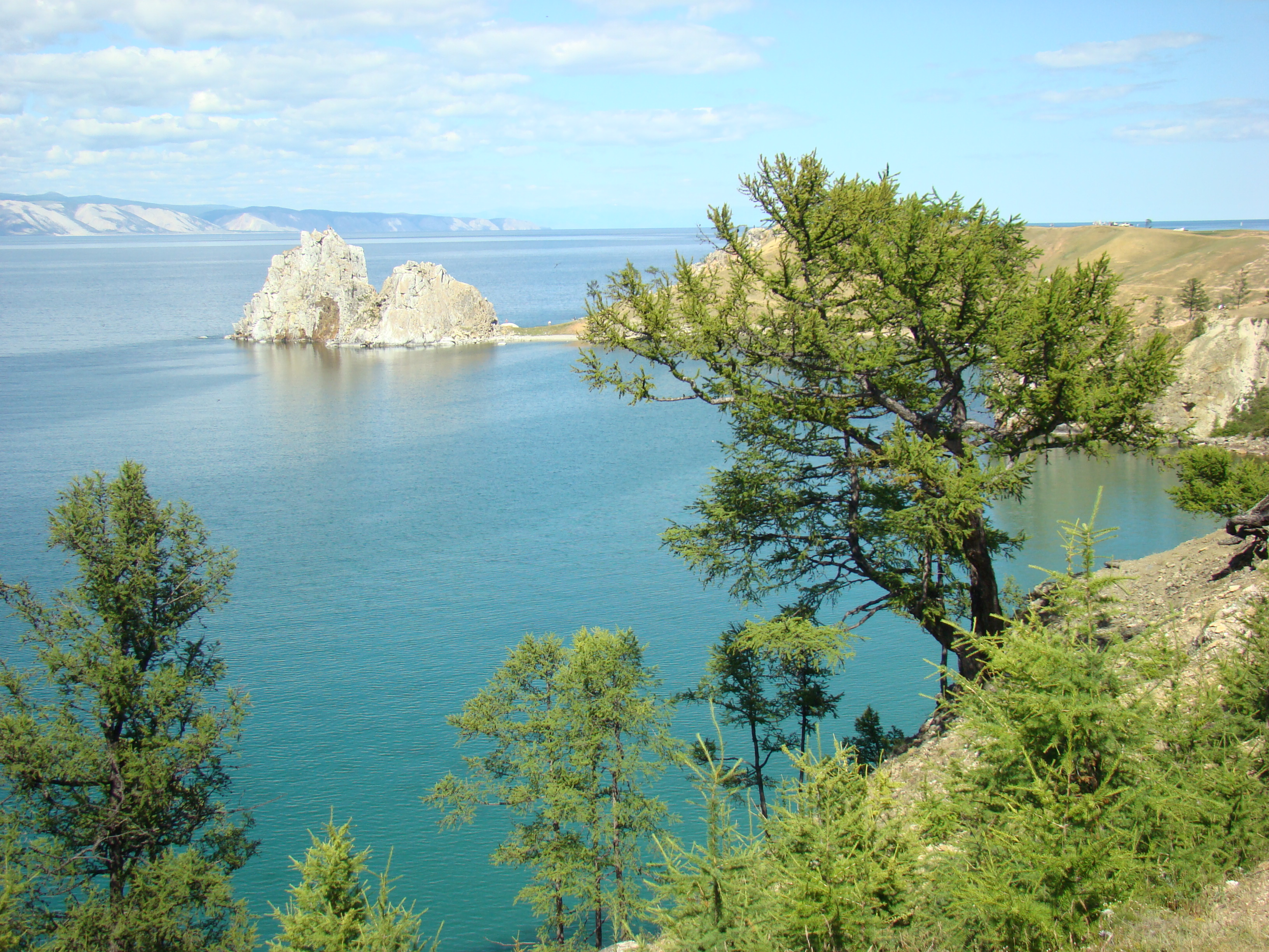 Shaman Rock on Olkhon island, Lake Baikal. Trees are Larix × czekanowskii (natural hybrid L. sibirica × L. gmelinii).